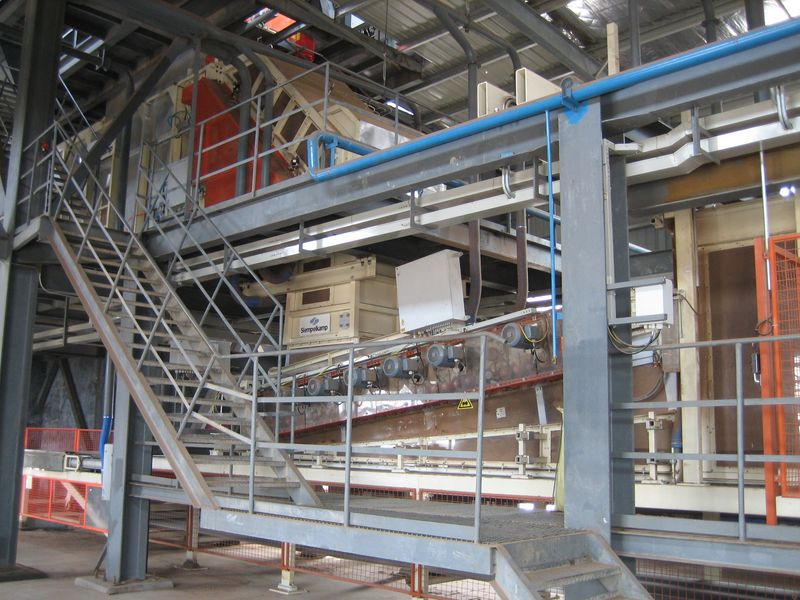 Mechanical Forming Machine for MDF-Production